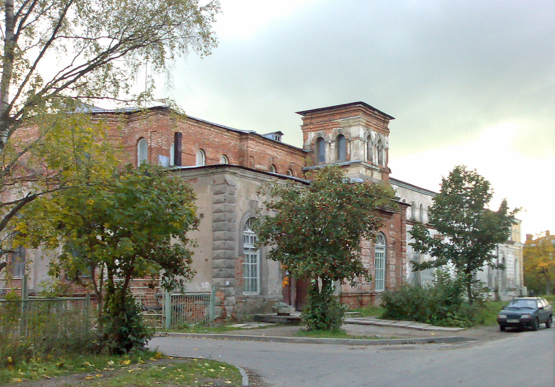 ex St. Serge church in Tsarskoye Selo